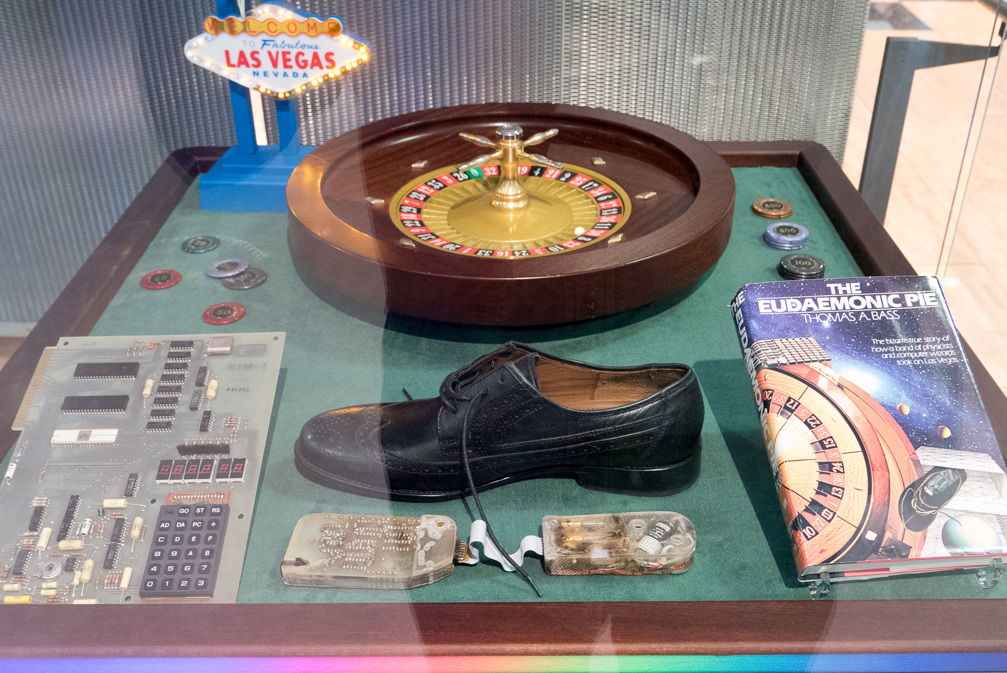 The Eudaemonic Pie display at the Heinz Nixdorf Museum.